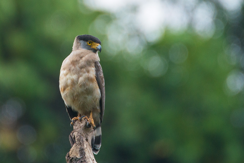 Great Nicobar Serpent Eagle (Spilornis klossi) by Shreeram MV Photographed near Campbell Bay, Great Nicobar, India